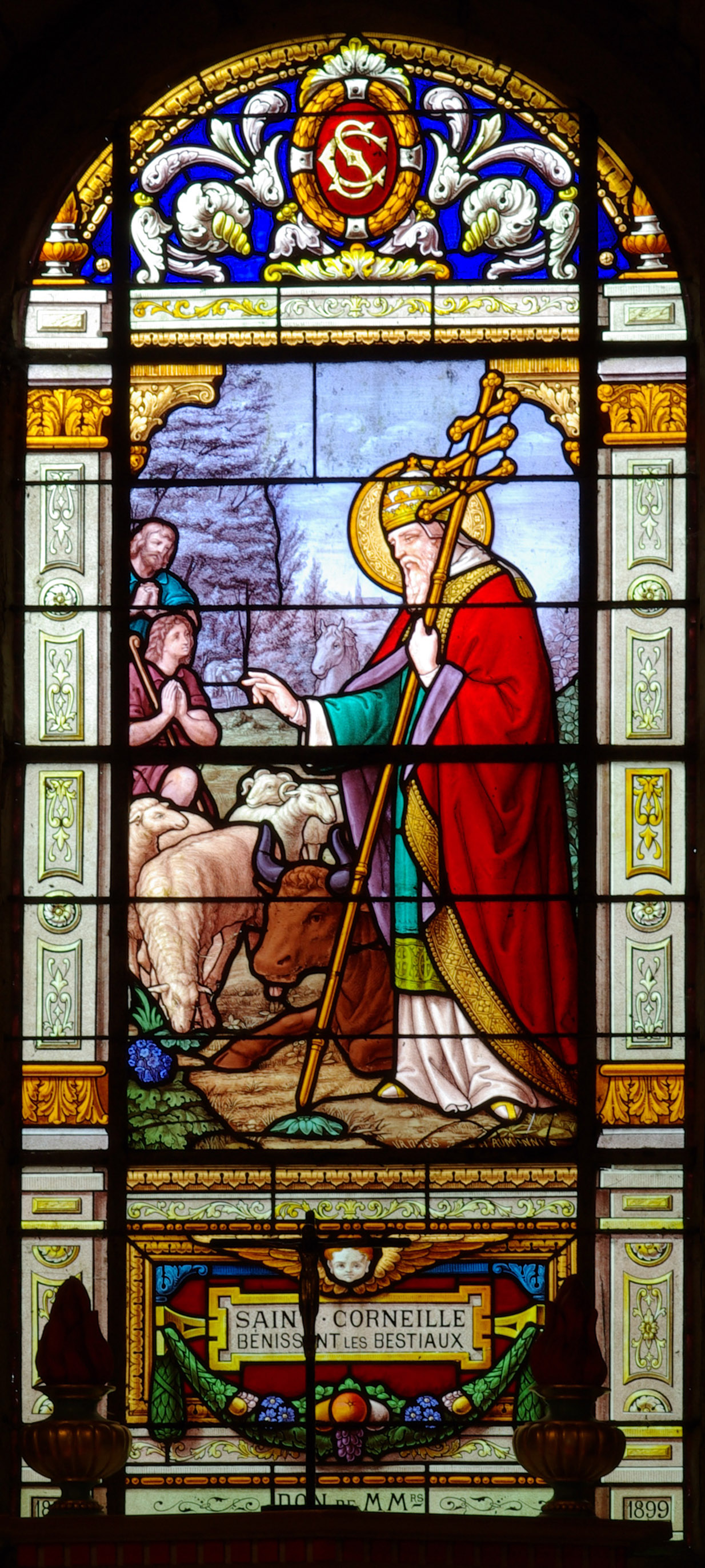 Church Gourlizon